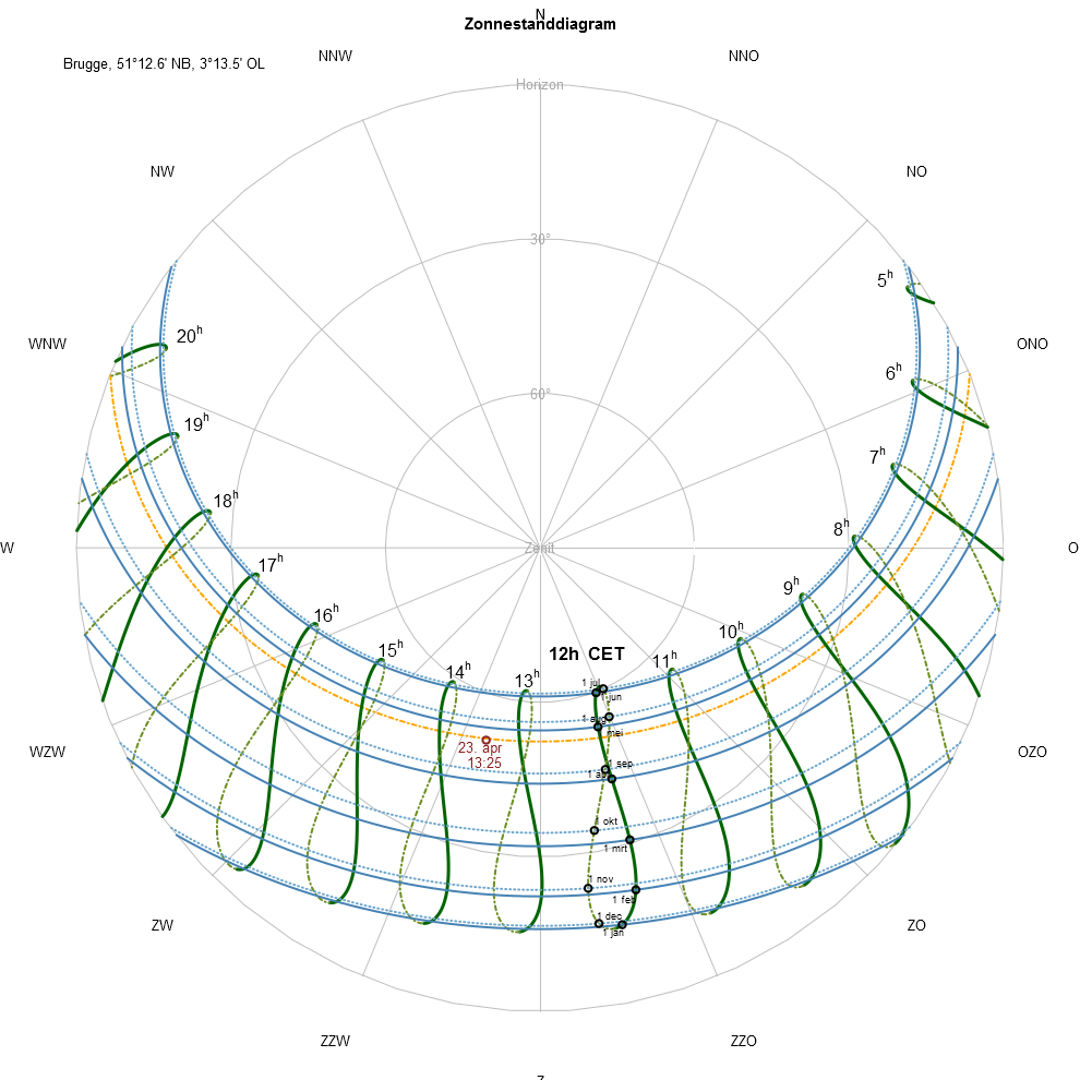 Polar diagram with the sun positions for Brugge, showing sunbows for the first day of the 12 months, analemmata for different hours, sun position at a certain day and hour, daybow for that same day.